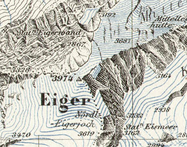 The Eiger in the Map of Siegfried (1930)